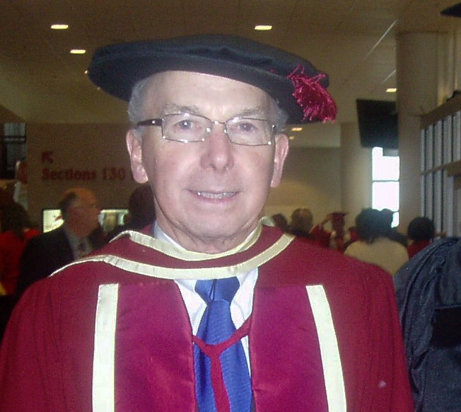 Keith Gubbins at North Carolina State Graduation, December 2010